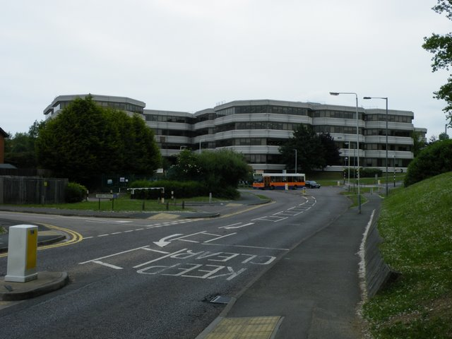 Wigmore Place, an office block at the junction of Eaton Green Road and Wigmore Lane - head office of TUI UK and Thomson Airways.